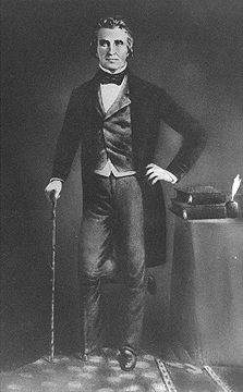 Portrait of Robert McAlpin Williamson (c. 1804-1859))